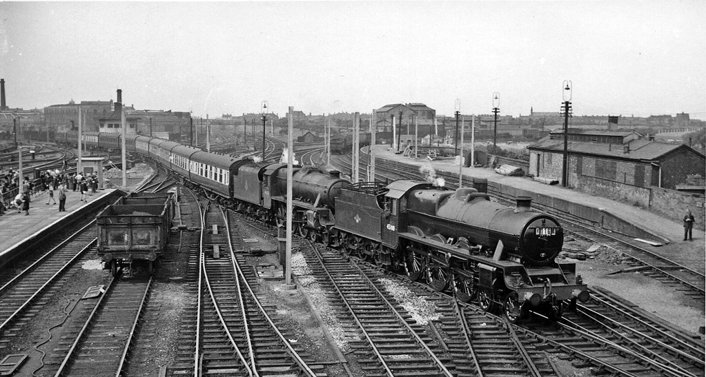 Express from North Wales entering Crewe. View northward from the footbridge at the north end of Crewe Station, down the West Coast Main Line to Preston, Carlisle etc., also Liverpool, the Manchester line curving off to the right. The 13.20 Llandudno - Derby Summer Saturday express is coming off the Chester line across the main lines, headed by LMS 'Jubilee' 6P 4-6-0 No. 45700 'Amethyst' piloting Stanier Class 5 4-6-0 45026. Masts are already being erected for the electrification that commenced (to Manchester) 18 months later. Countless train-spotters crowd the end of Platform 4.